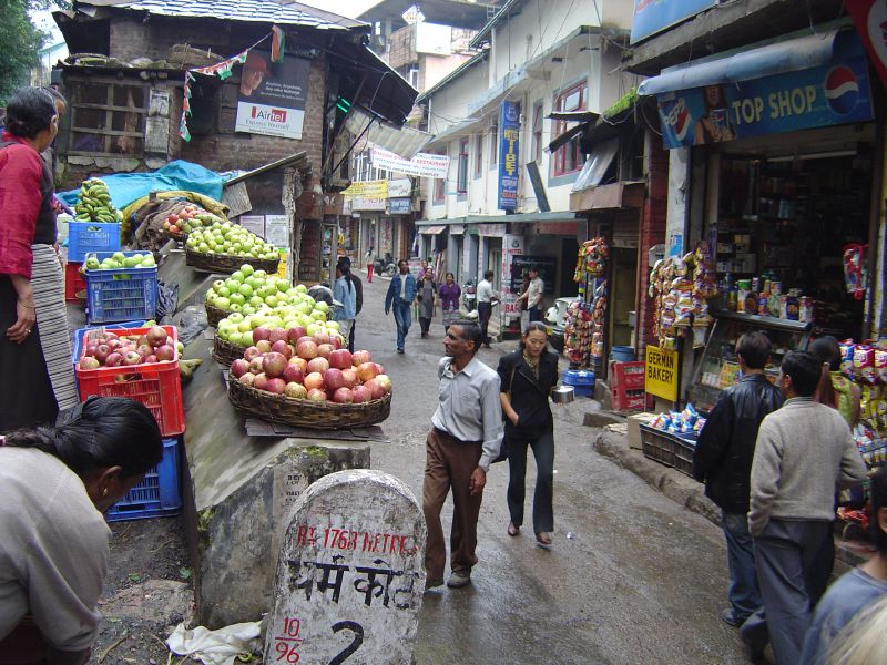 Streetscene of McLeod Ganj (Upper Dharamsala), India, Old pictures taken on a trip throughout India in 2004.